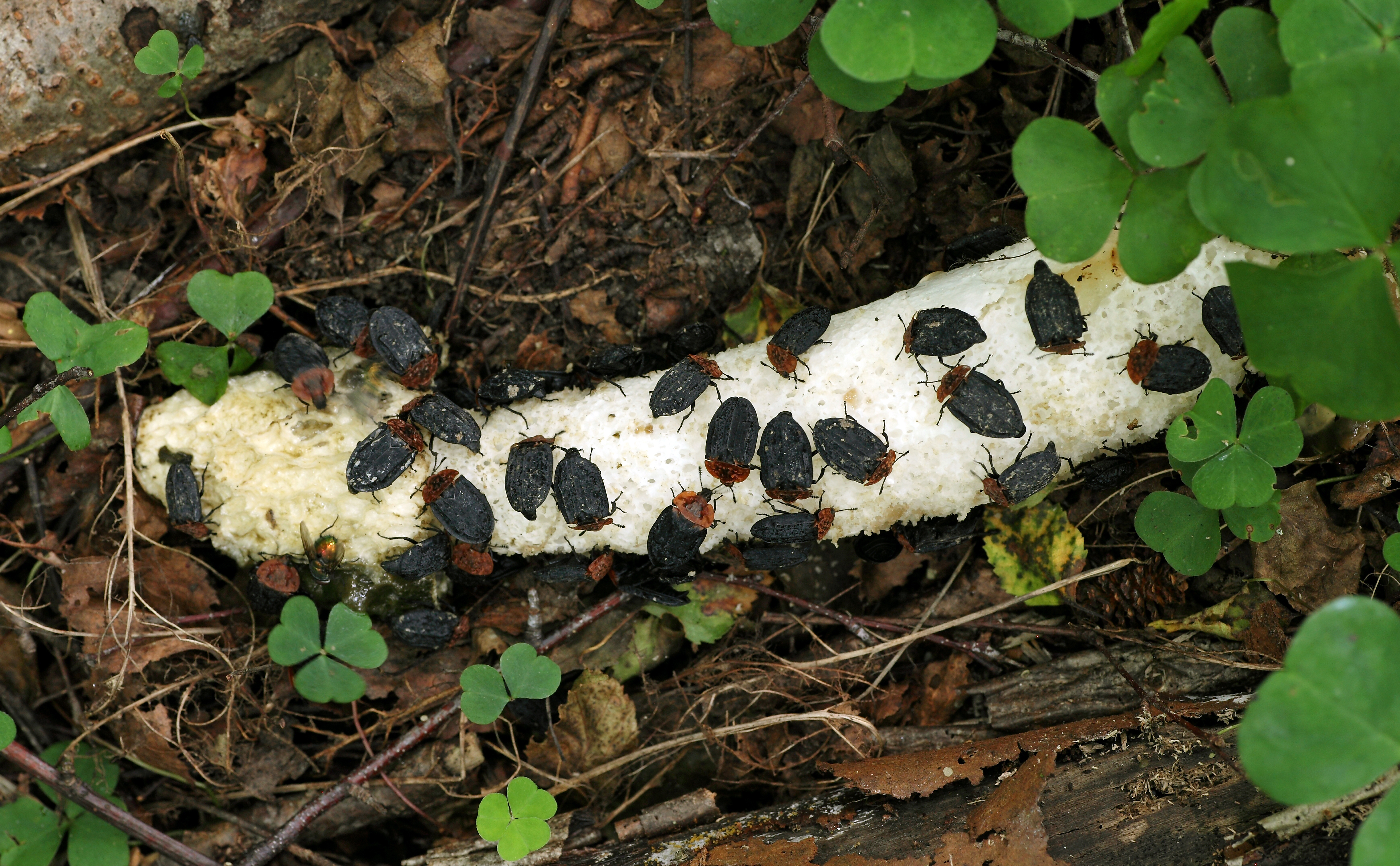 Red-breasted carrion beetles on a stinkhorn. Pärispea village, Estonia.